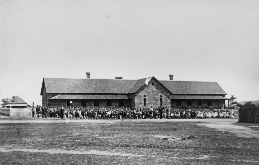 Warwick Central State School, ca. 1875 The foundation stone was laid for the Warwick Central State School in Guy Street on 25 June 1874. The sandstone building was completed in July 1875. It was the second state school in Warwick. It functioned for many years as two separate institutions known as Warwuick West Boys' School and Warwick West Girls' and Infants' School. In the late eighies, the name was changed to Warwick Central Schools reflecting the transfer of the main business centre from Albion to Palmerin Street. The two schools were amalgamated in 1933. (Description supplied with photograph.).